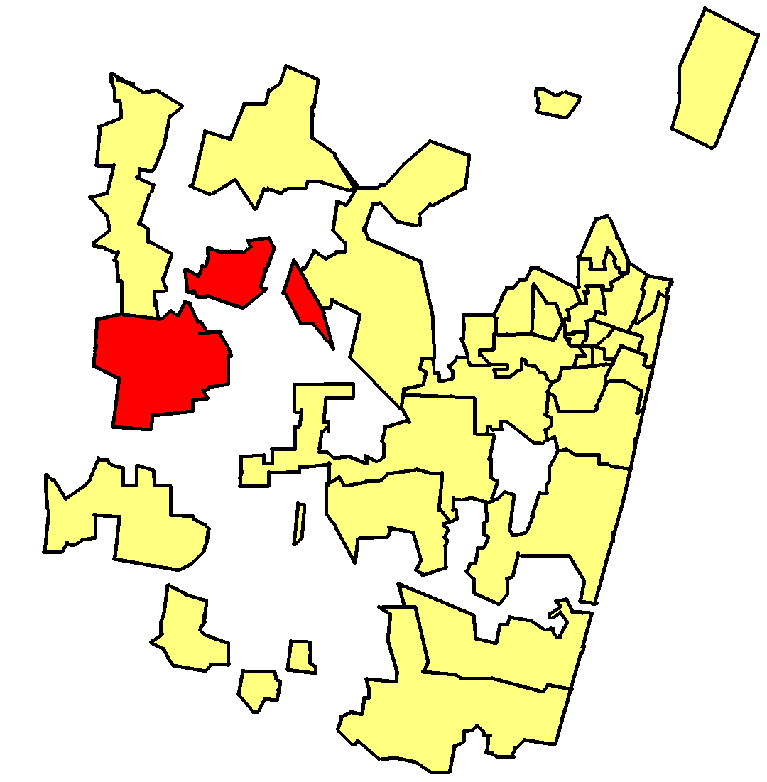 Map showing the Thirubhuvanai constituency in Puducherry, amongst constituencies 1 to 23 (the 23 constituencies in the area around Puducherry district)